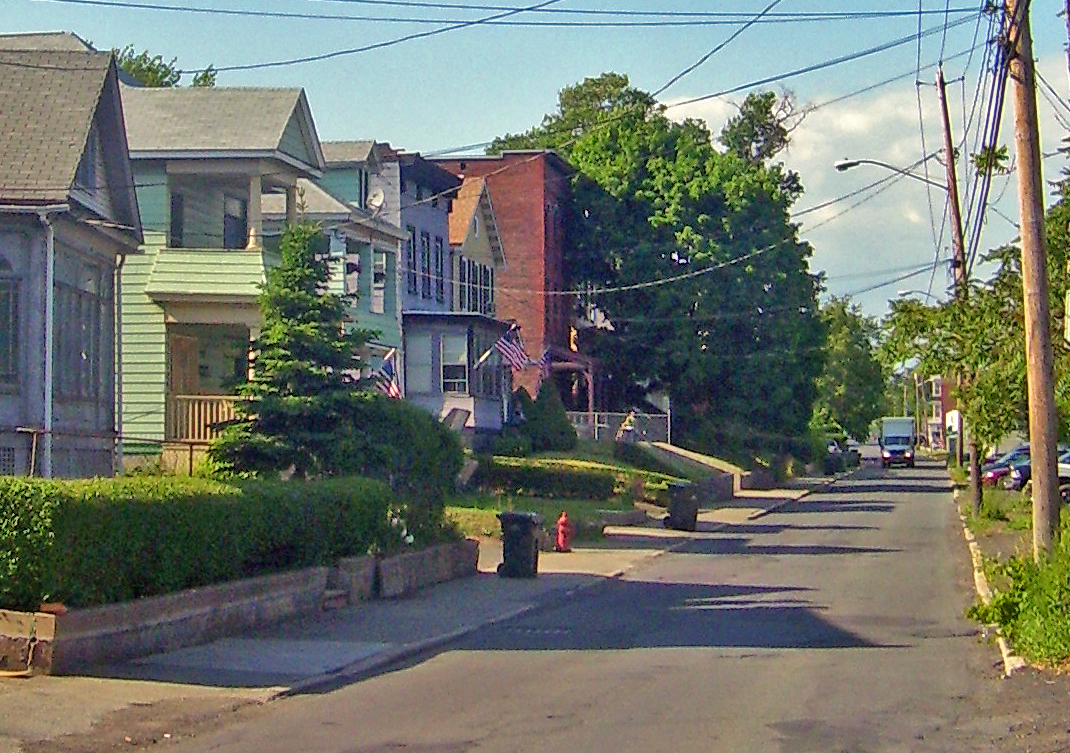 Residential section of NY 32 in Cohoes, NY, USA